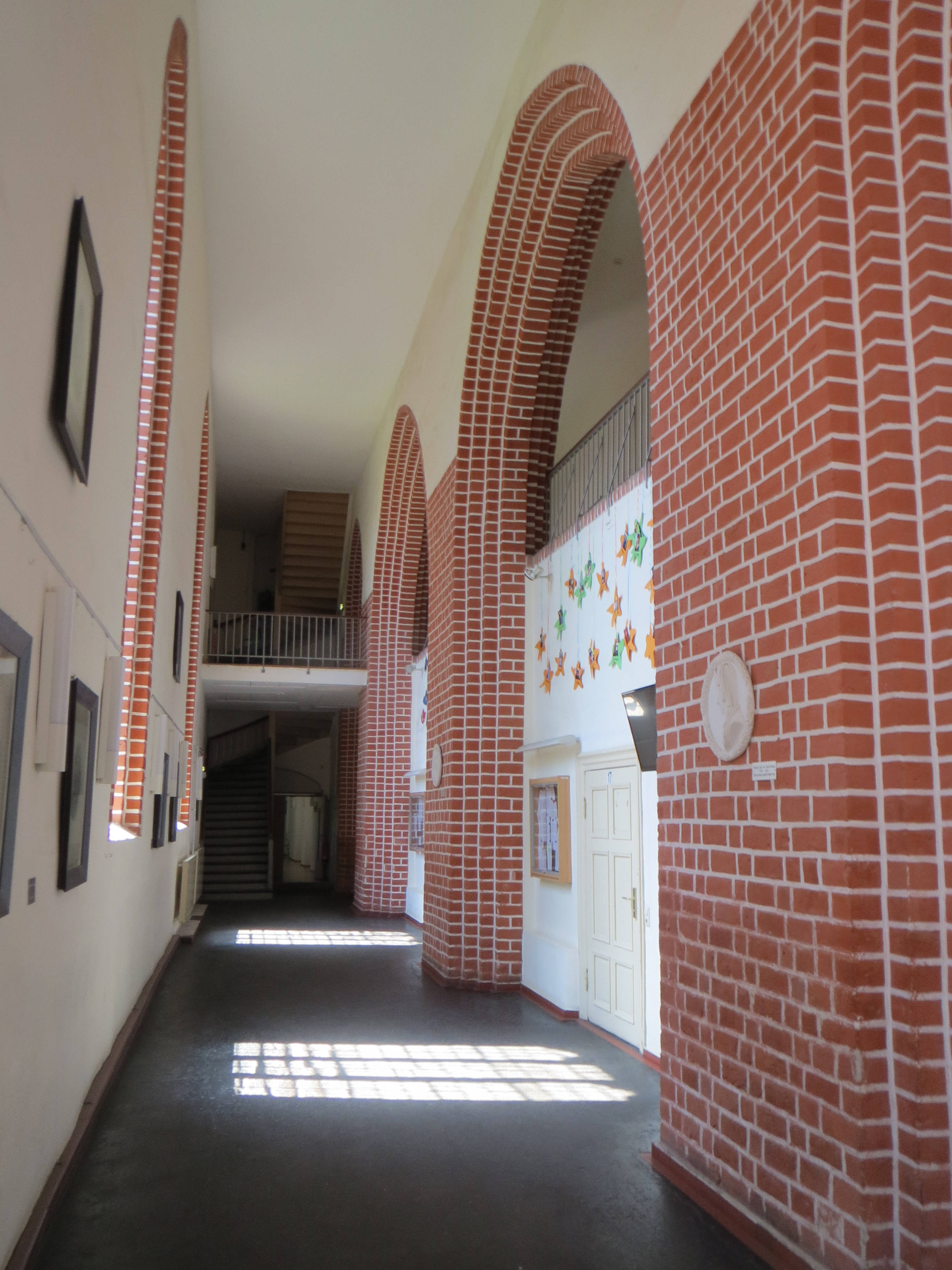 Francisceum old church